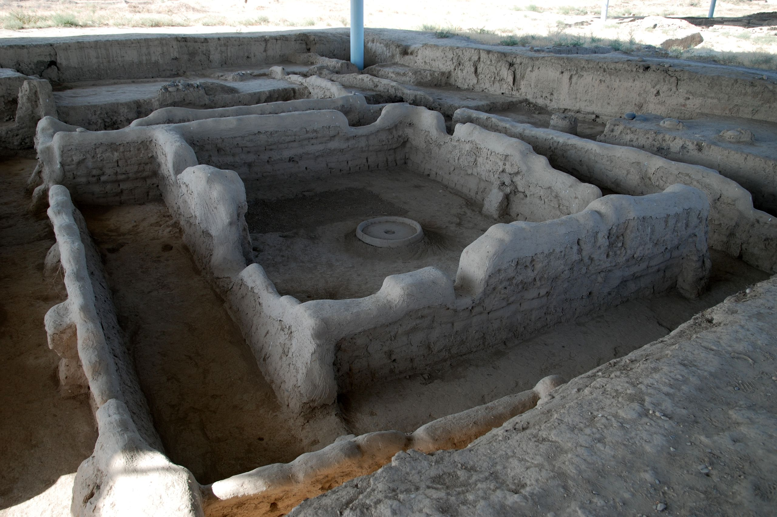 Sarazm, Sughd province, area XI